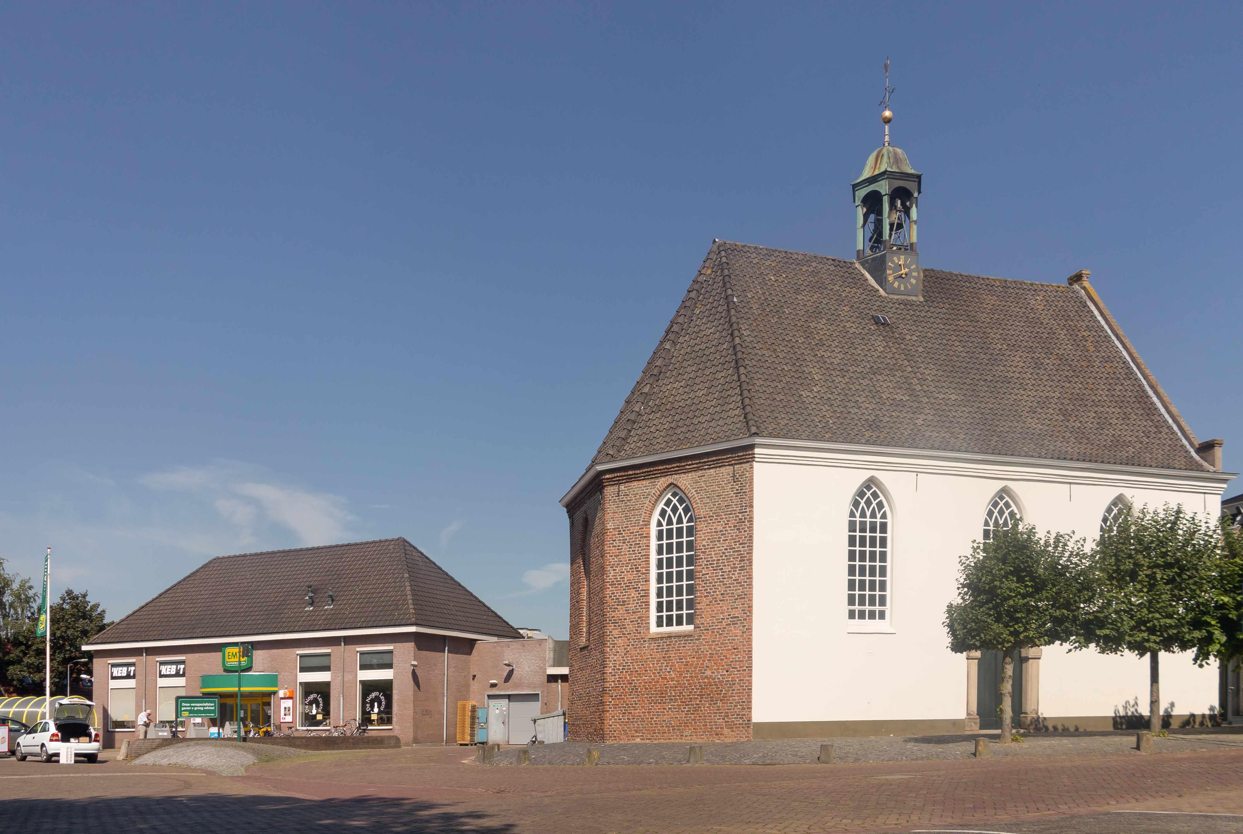 Lobith, reformed church